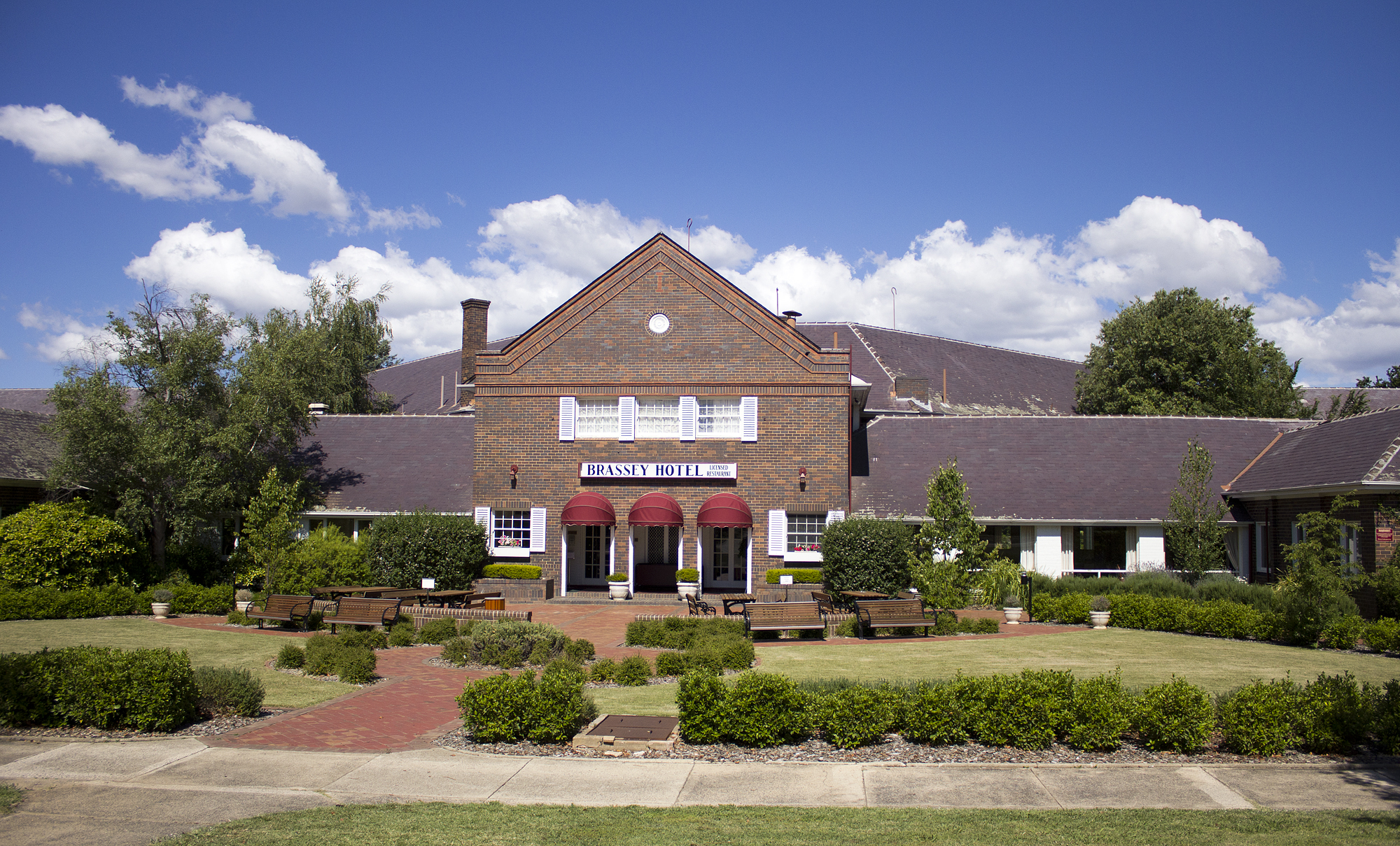 Brassey Hotel in Barton, Australian Capital Territory. Built in 1927 in a American Colonial style architecture.